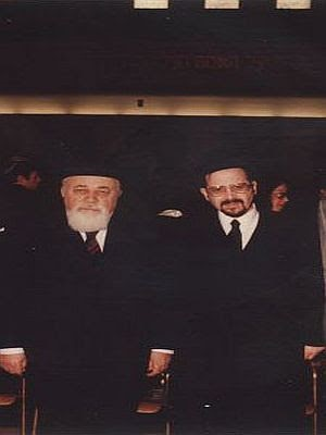 Chief Rabbi Ahron Daum with Chief Rabbi Savid Moshe Rosen of Romania on the occasion of the 100th death anniversary of Samson Rafael Hirsch z.l.